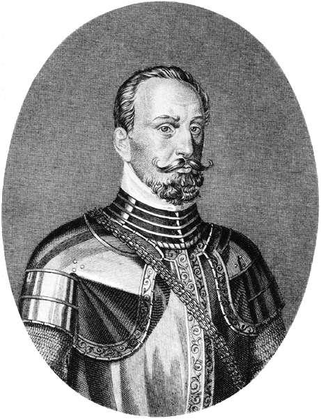 Nikola Jurišić (Nicholas Yurishich; 1490-1545), Croatian nobleman, soldier and diplomat